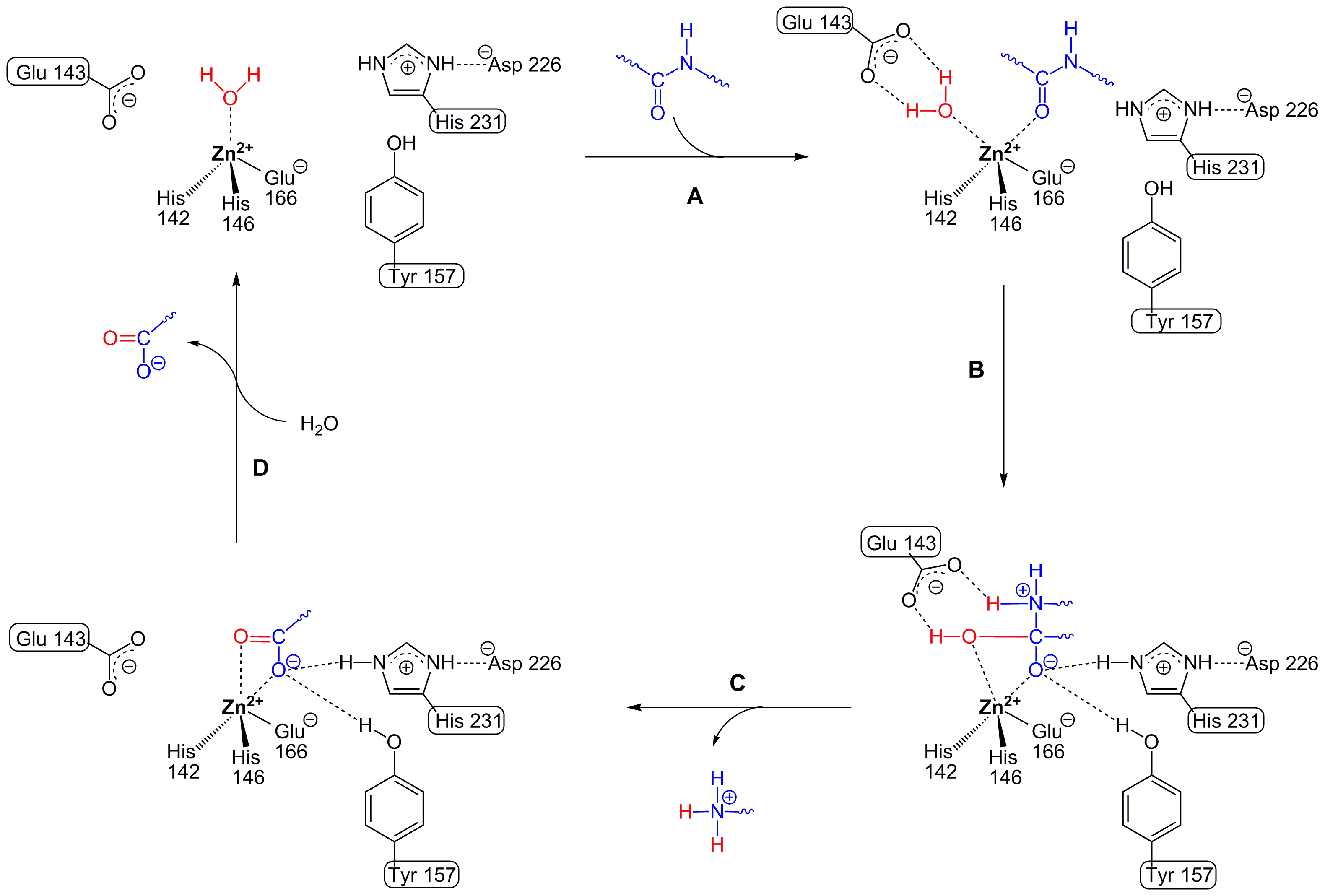 Experimentally proposed reaction cycle for thermolysin